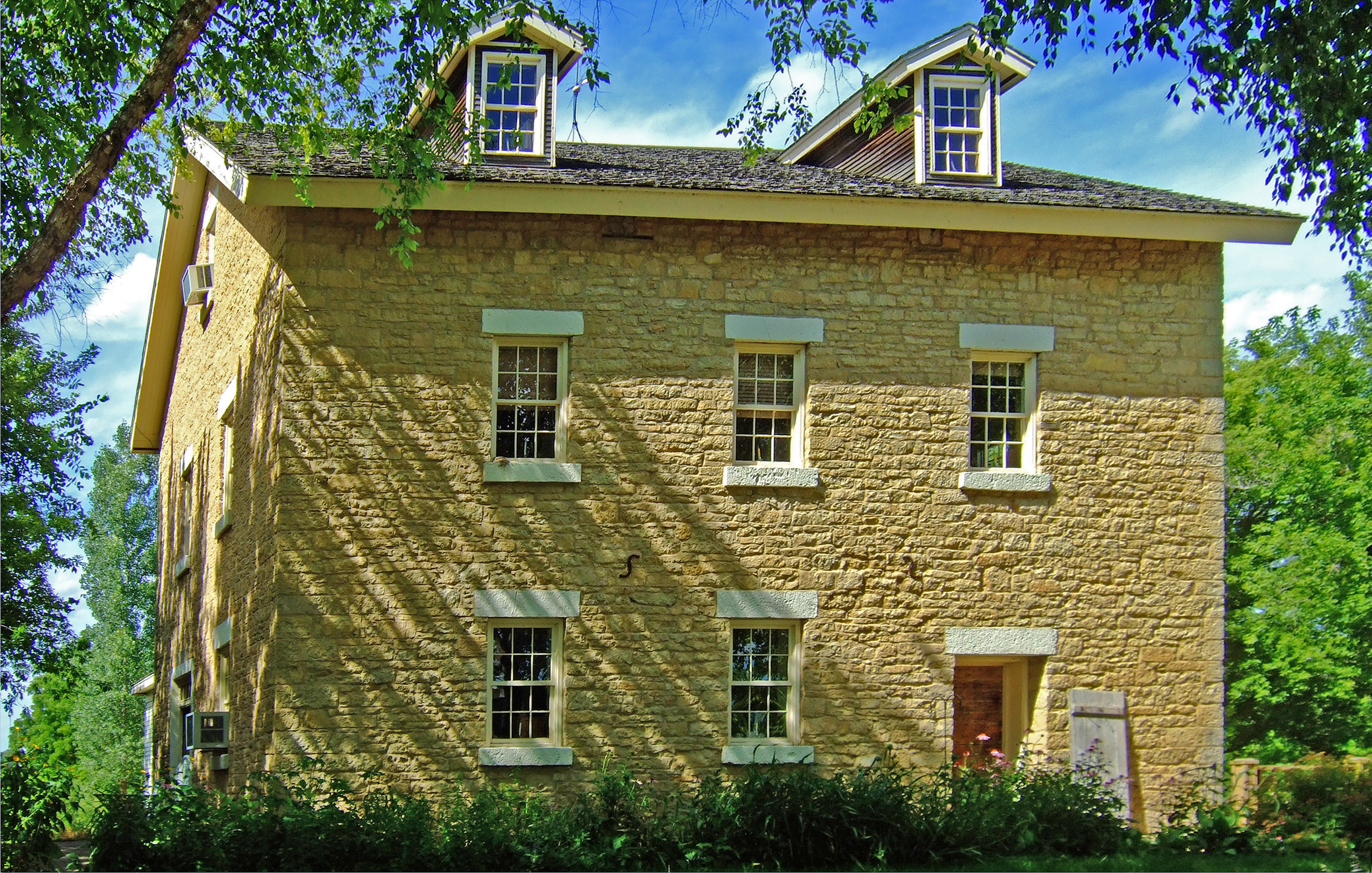 Paoli Mills, a complex of four buildings on five acres at 6890 Sun Valley Parkway in Paoli, Wisconsin, was added to the National Register of Historic Places in 1979.